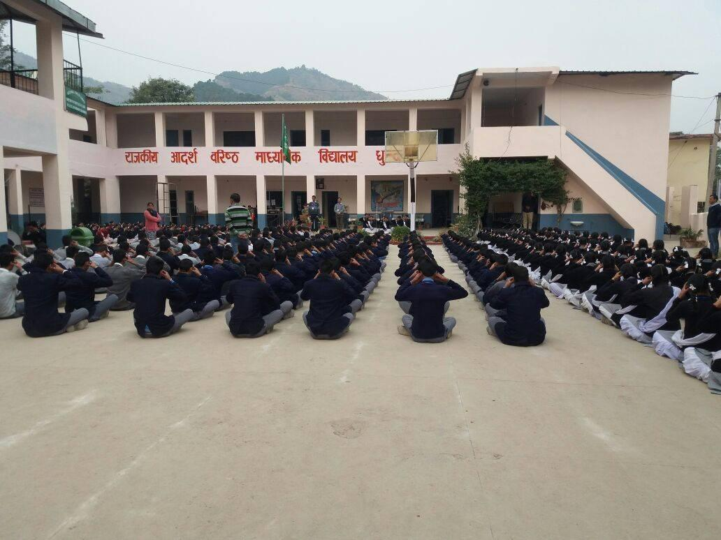 Photo fd students doing Yoga in morning assembly of the school.